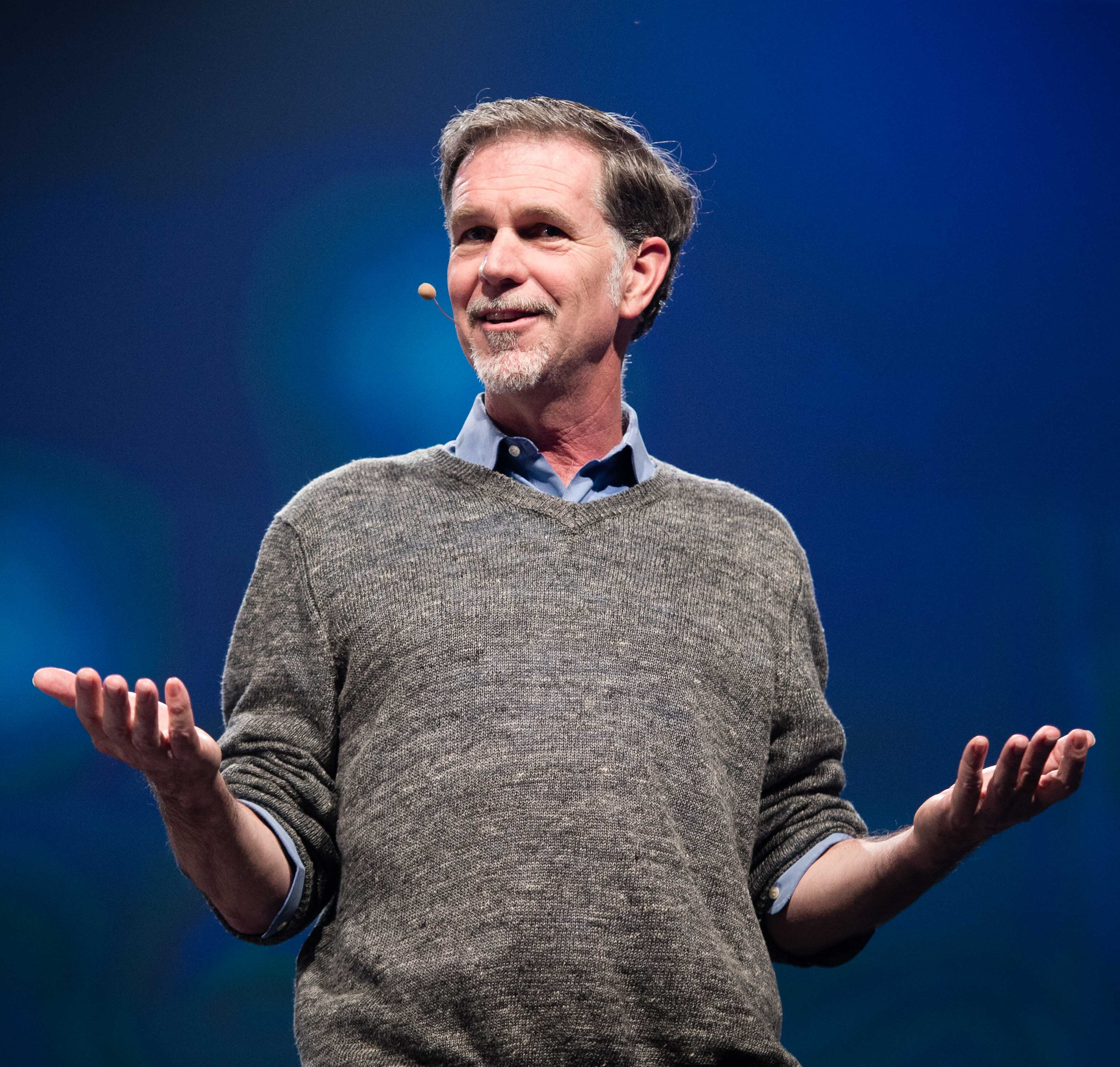 Reed Hastings spricht auf der re:publica 2015 am 05.05.2015 in Berlin. Copyright: re:publica/Gregor Fischer